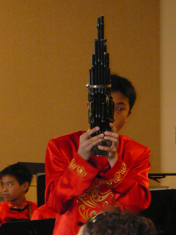 Firebird Youth Chinese Orchestra at the Cambrian Library on February 7, 2009